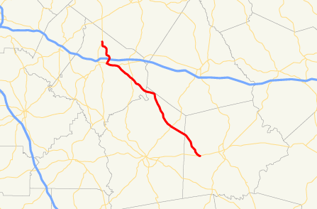 Map of Georgia State Route 142